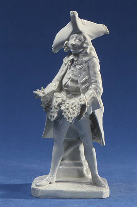 British, Bow; Figure; Ceramics-Porcelain